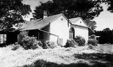 Black Rock House in Black Rock, Victoria. Photograph originally produced for use on a postcard distributed by the Rose Stereograph Co.